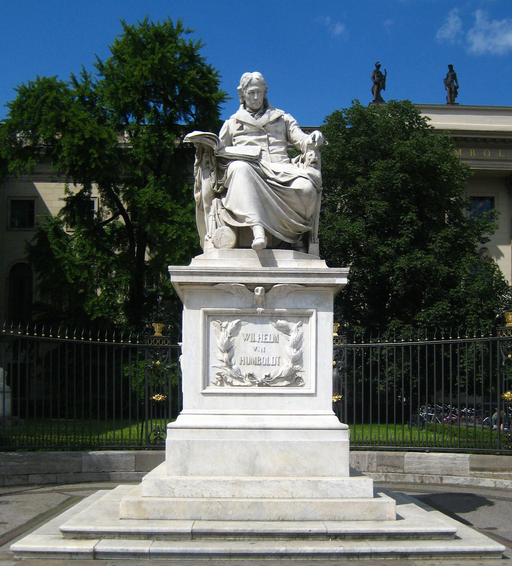 Memorial for Wilhelm von Humboldt in front of the main building of the Humboldt University in Berlin-Mitte, Unter den Linden; sculptor: Martin Paul Otto (1883).